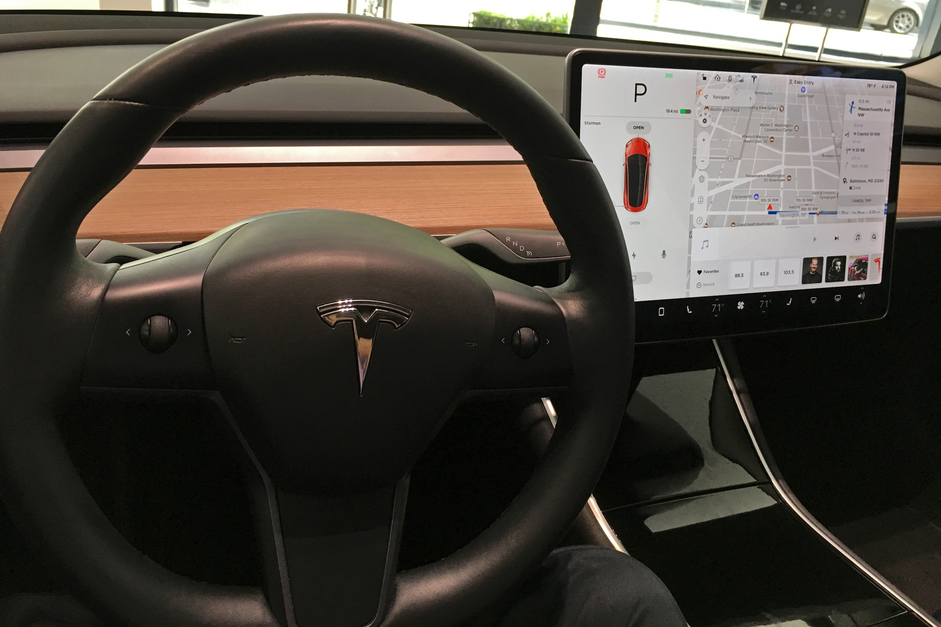 Tesla Model 3 dashboard, Tesla Store Washington D.C